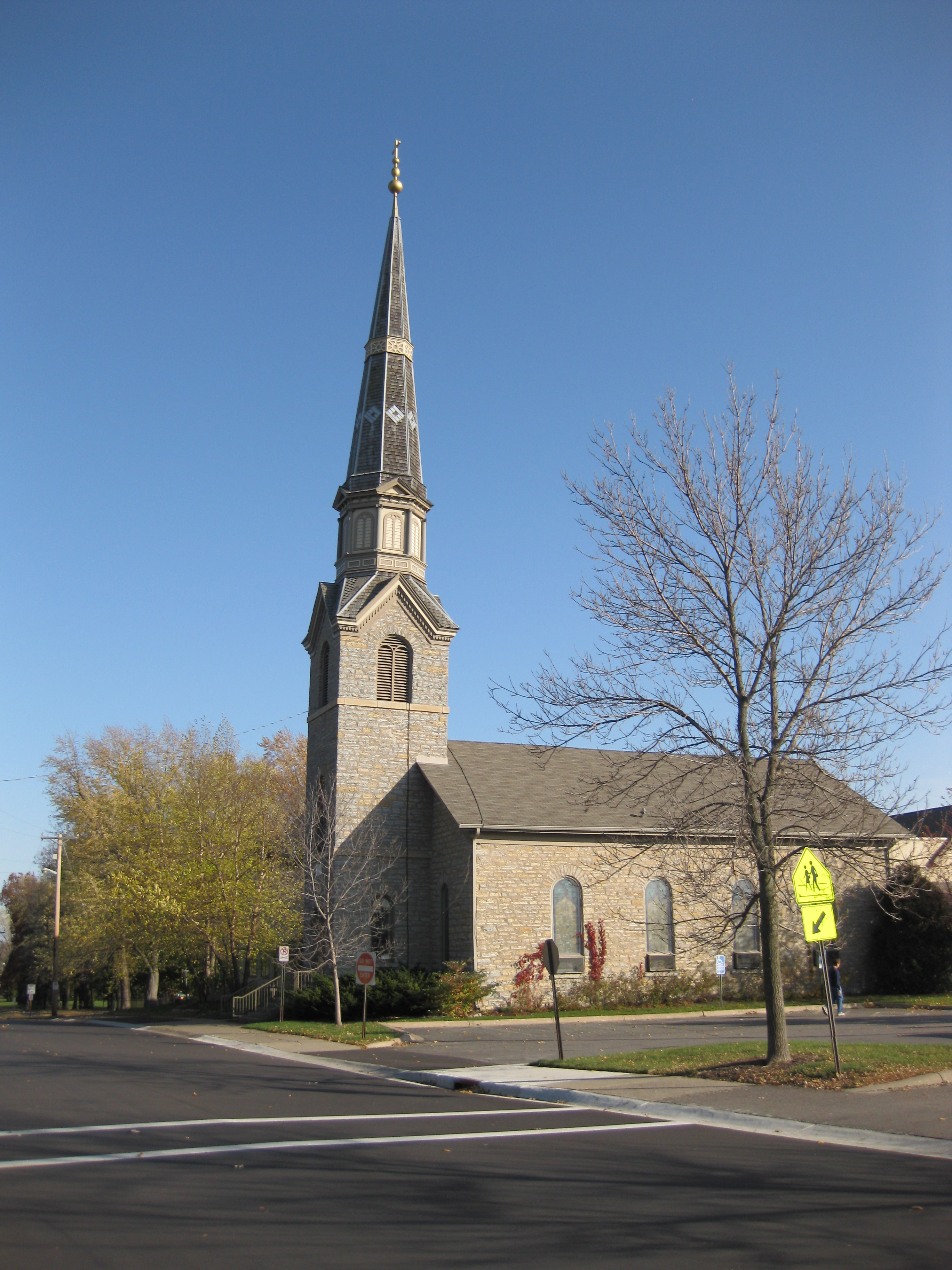 Woodbury United Methodist Church in Woodbury, Minnesota